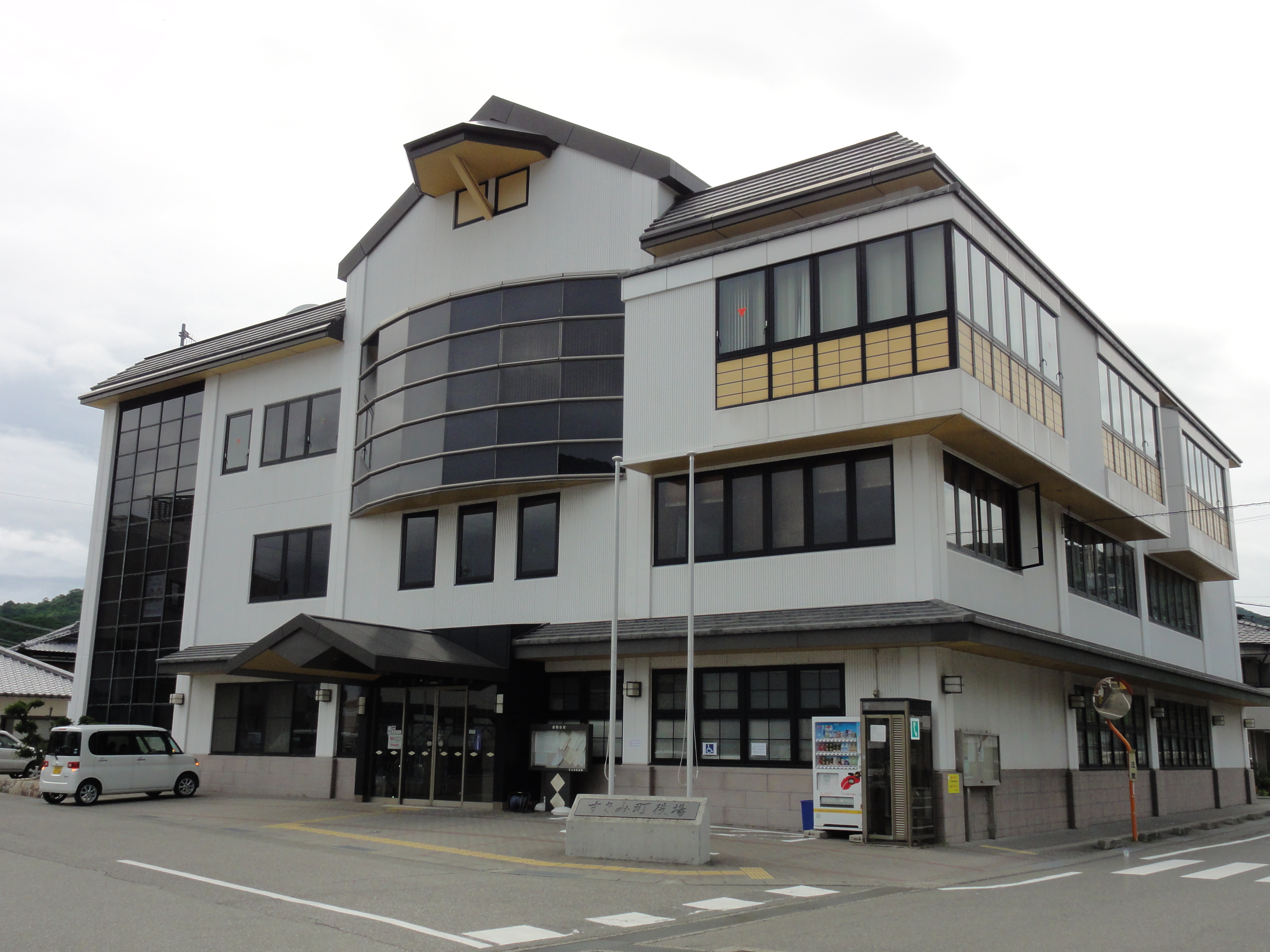 Susami town office,Wakayama prefecture,Japan